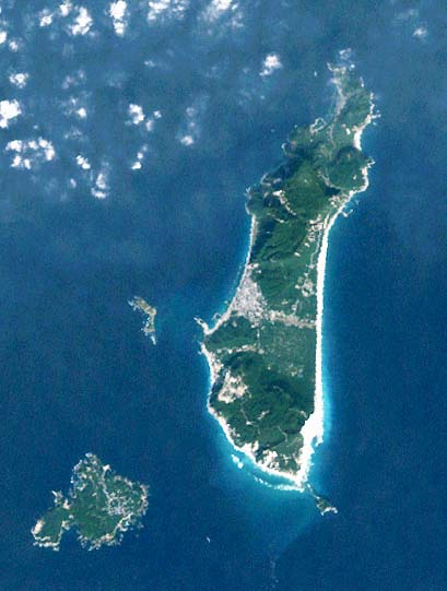 Landsat picture of Niijima (right) and Shikinejima Island (left), Izu islands, Japan.